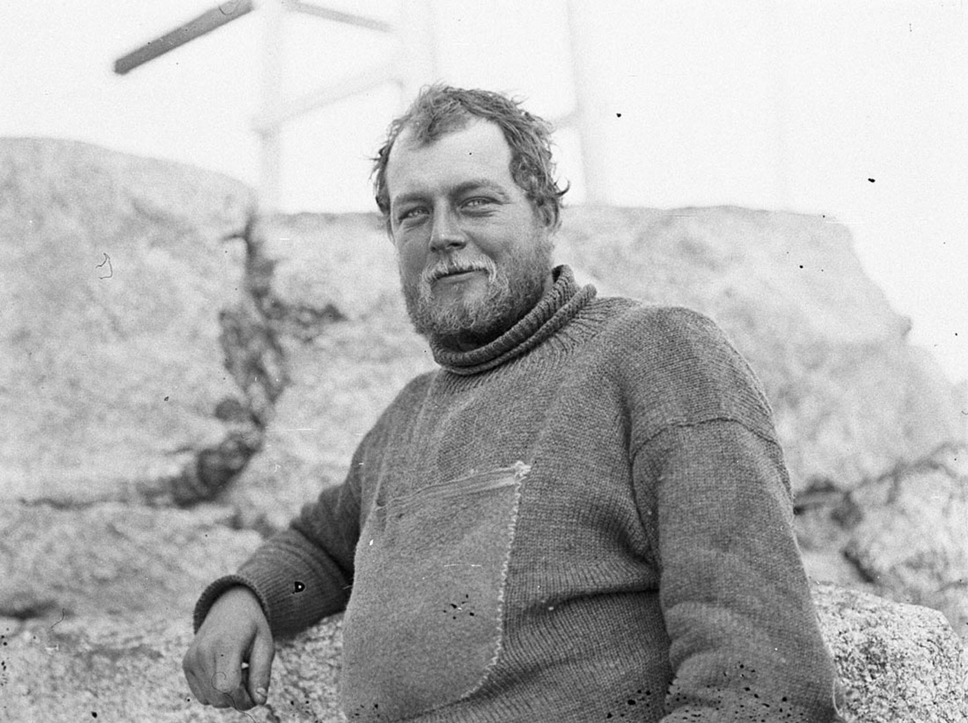 Alfred Hodgeman, Cape Denison, Antarctica, 1911-1914, photo by Frank Hurley, from original negative held by the State Library of New South Wales, Home and Away - 36815